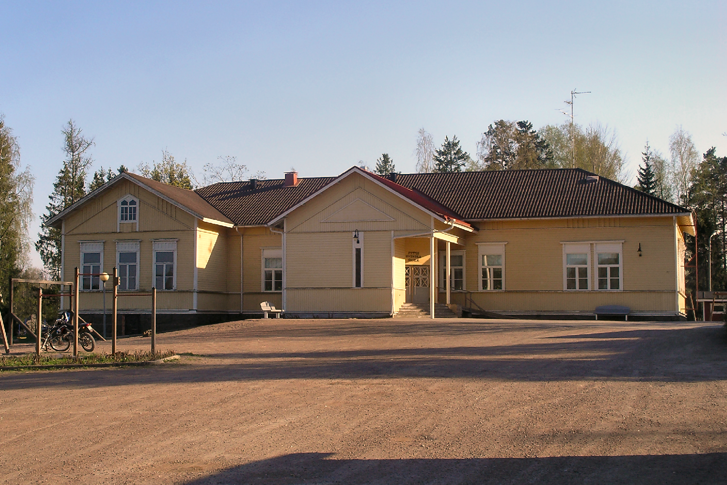 Svartbäck Swedish school in Pyhtää, Finland